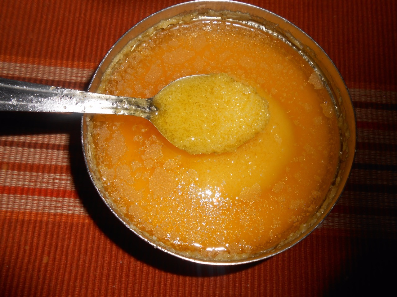 Clarified butter made by churning milk cream